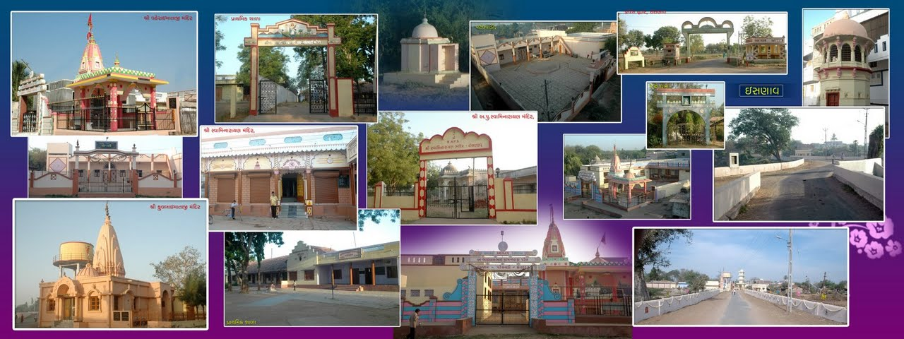 Isnav whole